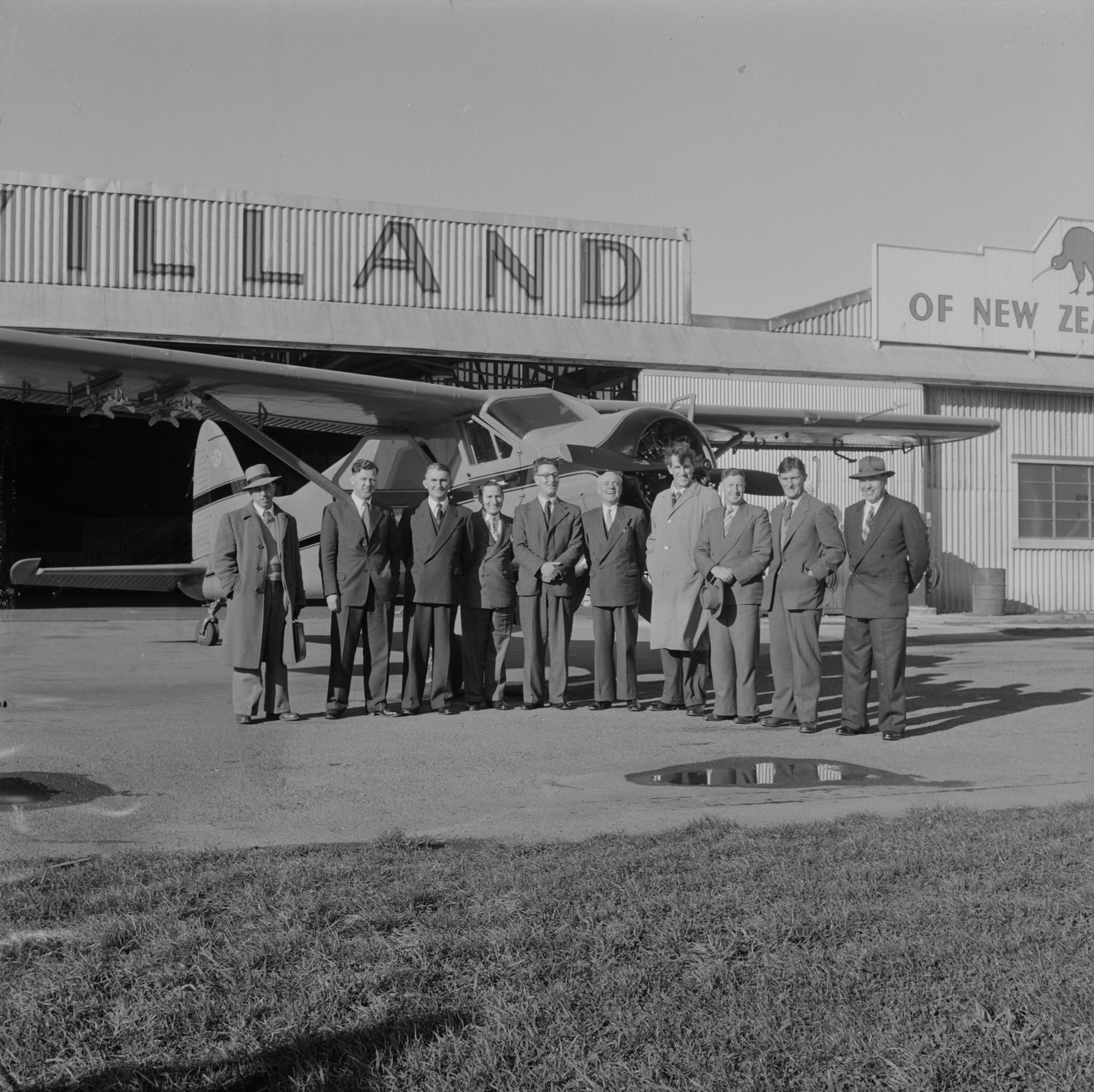 Sir Edmund Hillary, fourth from the right, in the lighter jacket, with a group of unidentified men in front of an aeroplane at Rongotai Airport (now called Wellington International Airport). Photograph taken for The Evening Post by an unidentified staff photographer. Physical Description: Cellulosic film negative 3.25 x 4.25 inches.